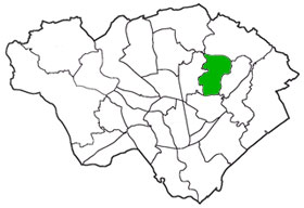 Map of Pentwyn electoral ward, Cardiff